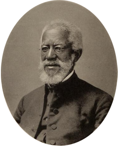 Alexander Crummell (1819 - 1898), a 19th century Episcopalian minister who championed educational opportunities for African-Americans and advocated immigration to Liberia.